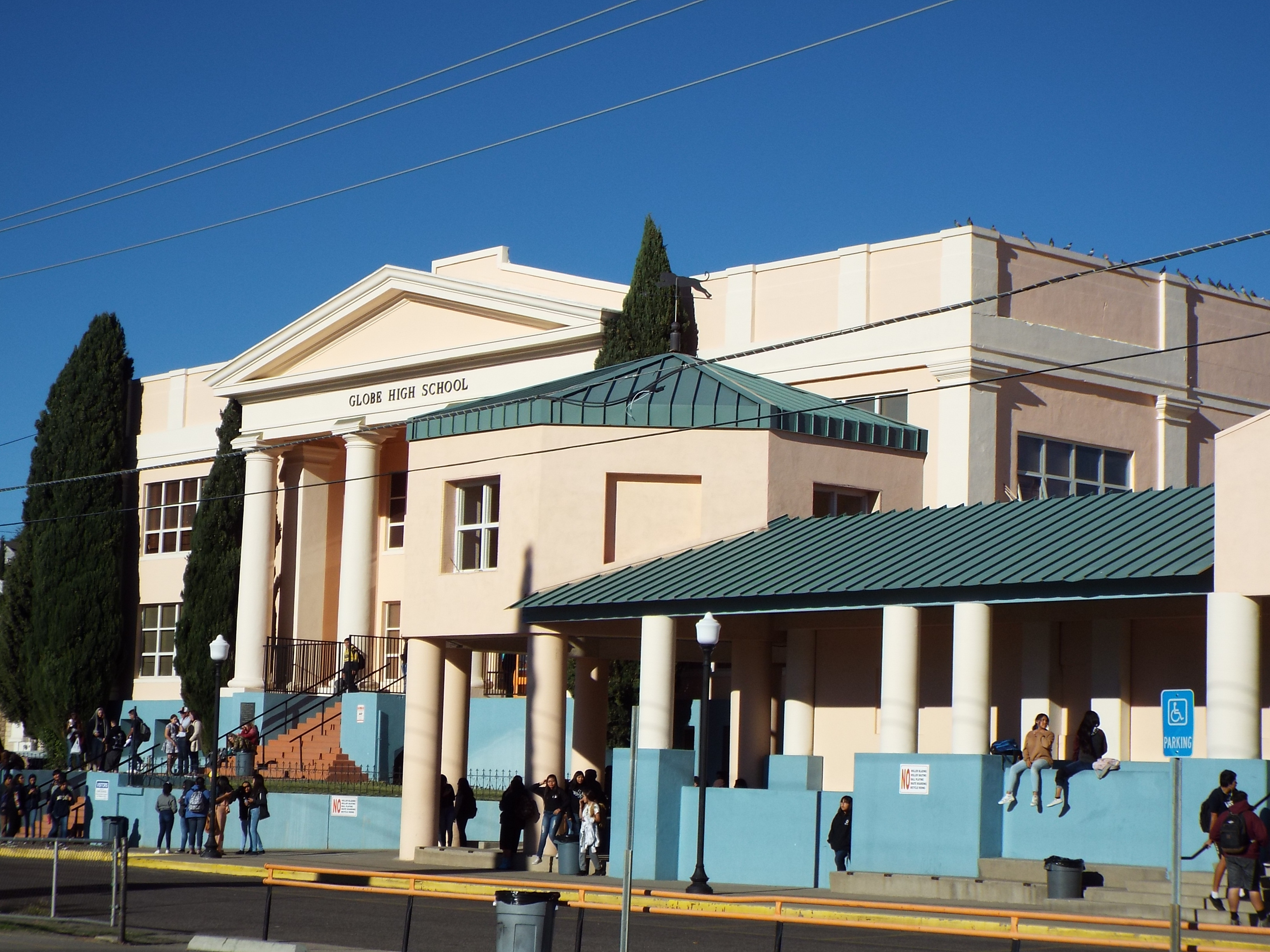 Globe-Globe High School-437 High Street-1949